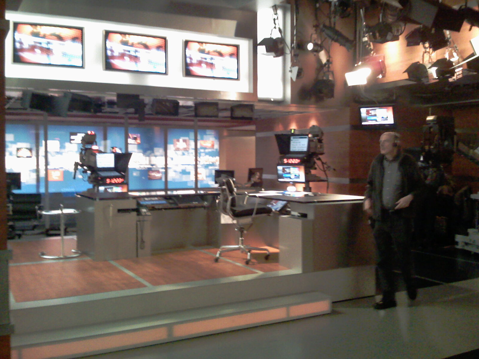 NBC Nightly News SetNightly News Set